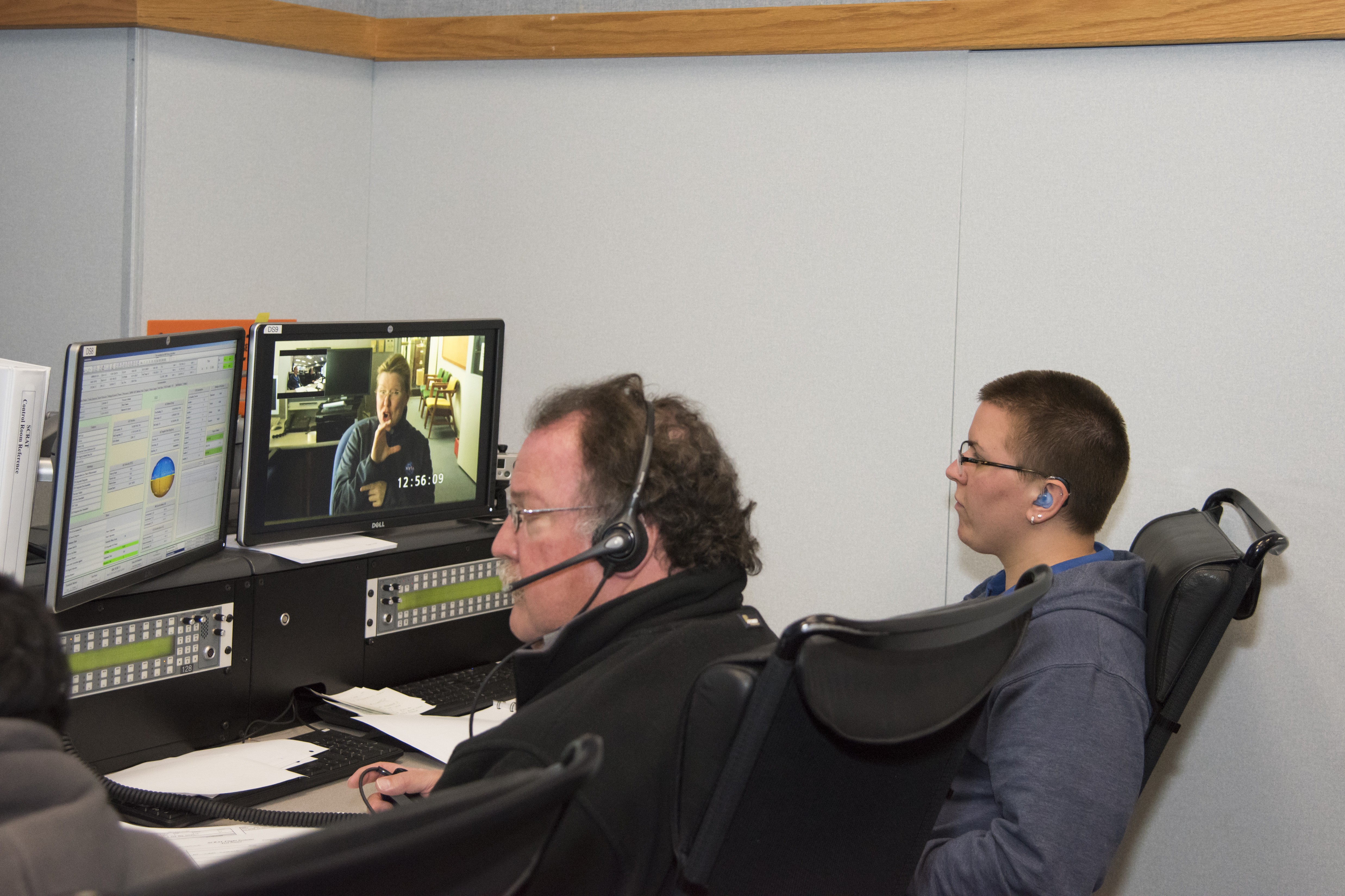 Johanna Lucht in NASA Control Center during a mission flight with an extra screen with an ASL interpreter.